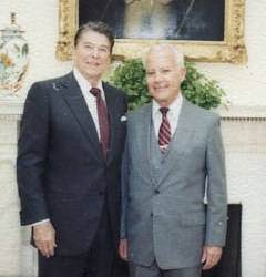 Lewis Arthur Tambs and Ronald Reagan in Oval Office